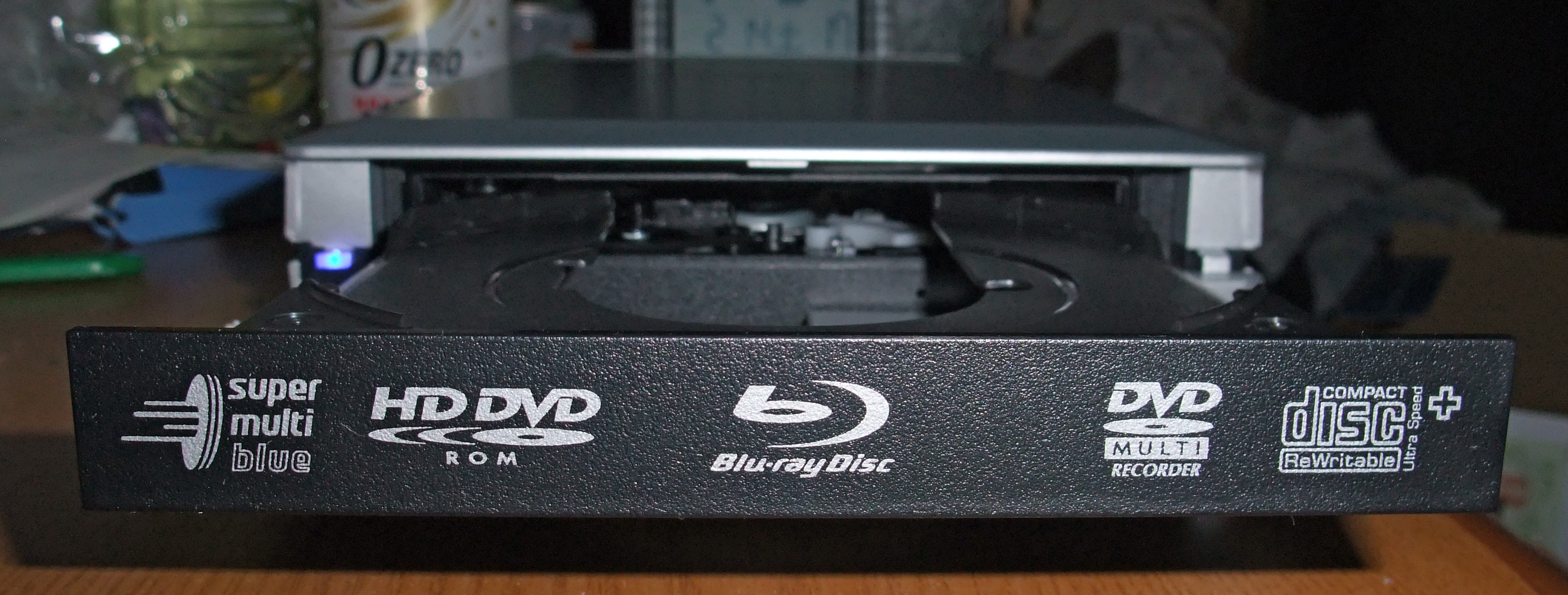 Blu-ray , HD DVD Drive